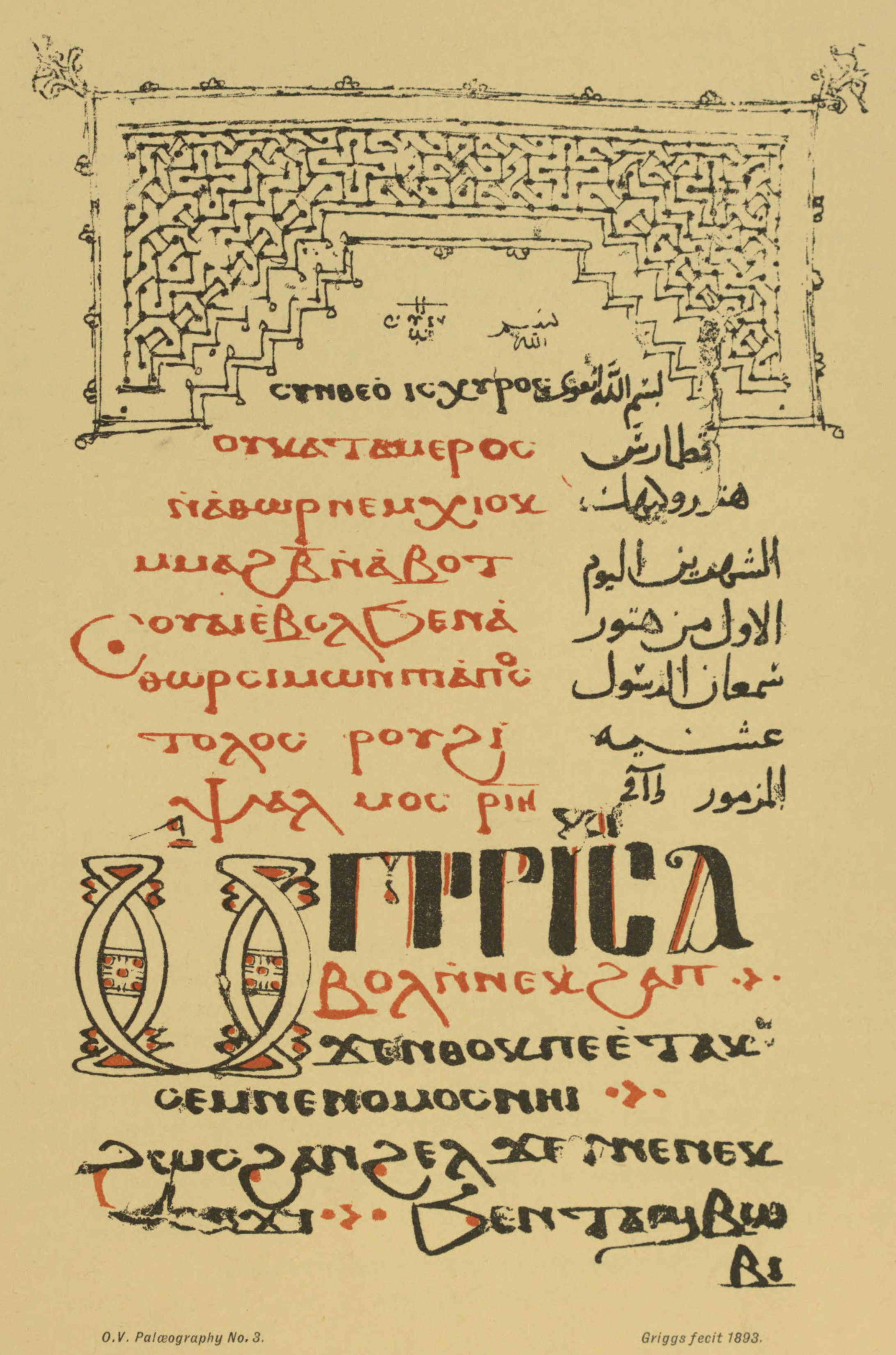 Plate from Palæography: Notes upon the History of Writing and the Medieval Art of Illumination . A PAGE FROM A COPTIC LITURGY. Written in Egypt in the fifteenth century. The text (starting at the very large black line) is Psalm 119:102 by Hebrew numbering